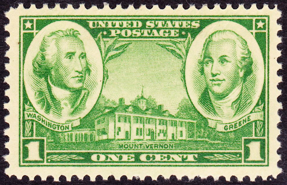 US Postage stamp: George Washington and Nathanael Green, Issue of 1937, 1c